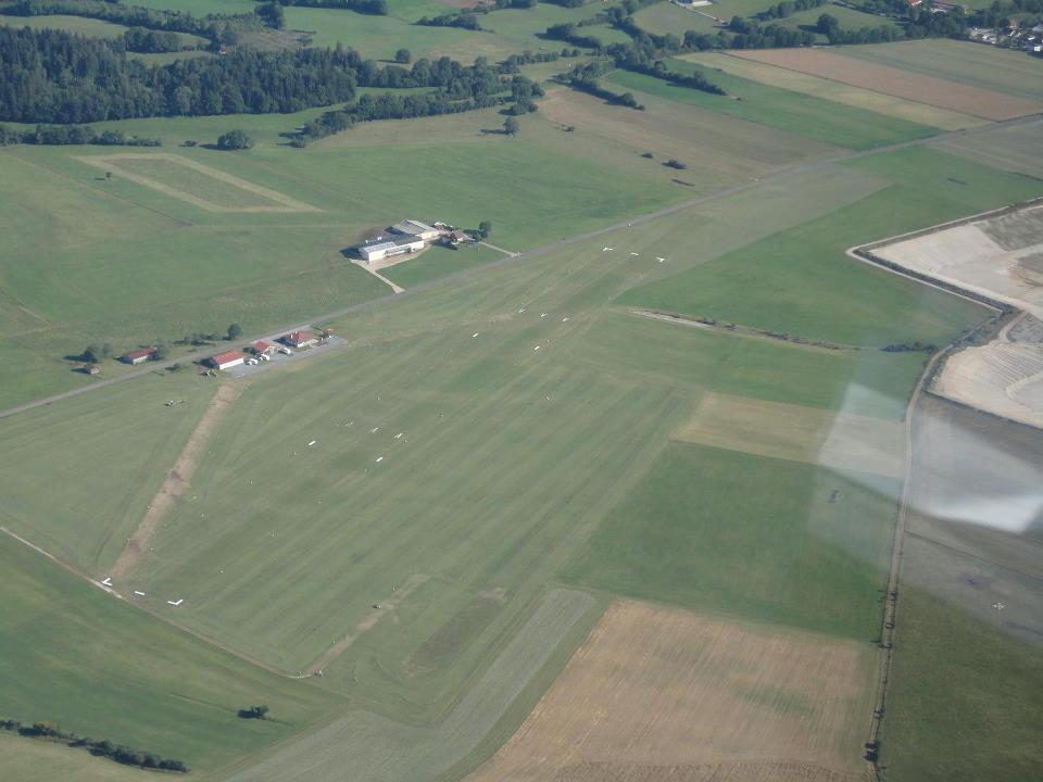 airfield of LFGX